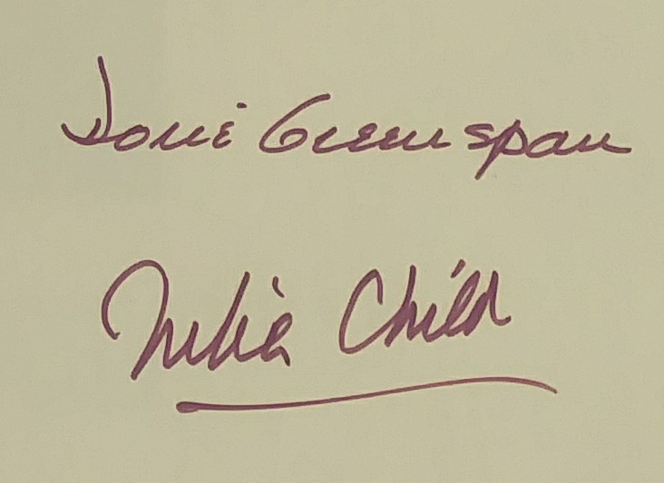 Signatures of Dorie Greenspan & Julia Child from a signed copy of Greenspan's book Baking with Julia, based on Child's TV show